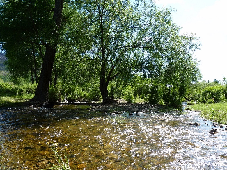 Selbe river in central Mongolia. At Maihan tolgoi location in Tuv province of Mongolia.